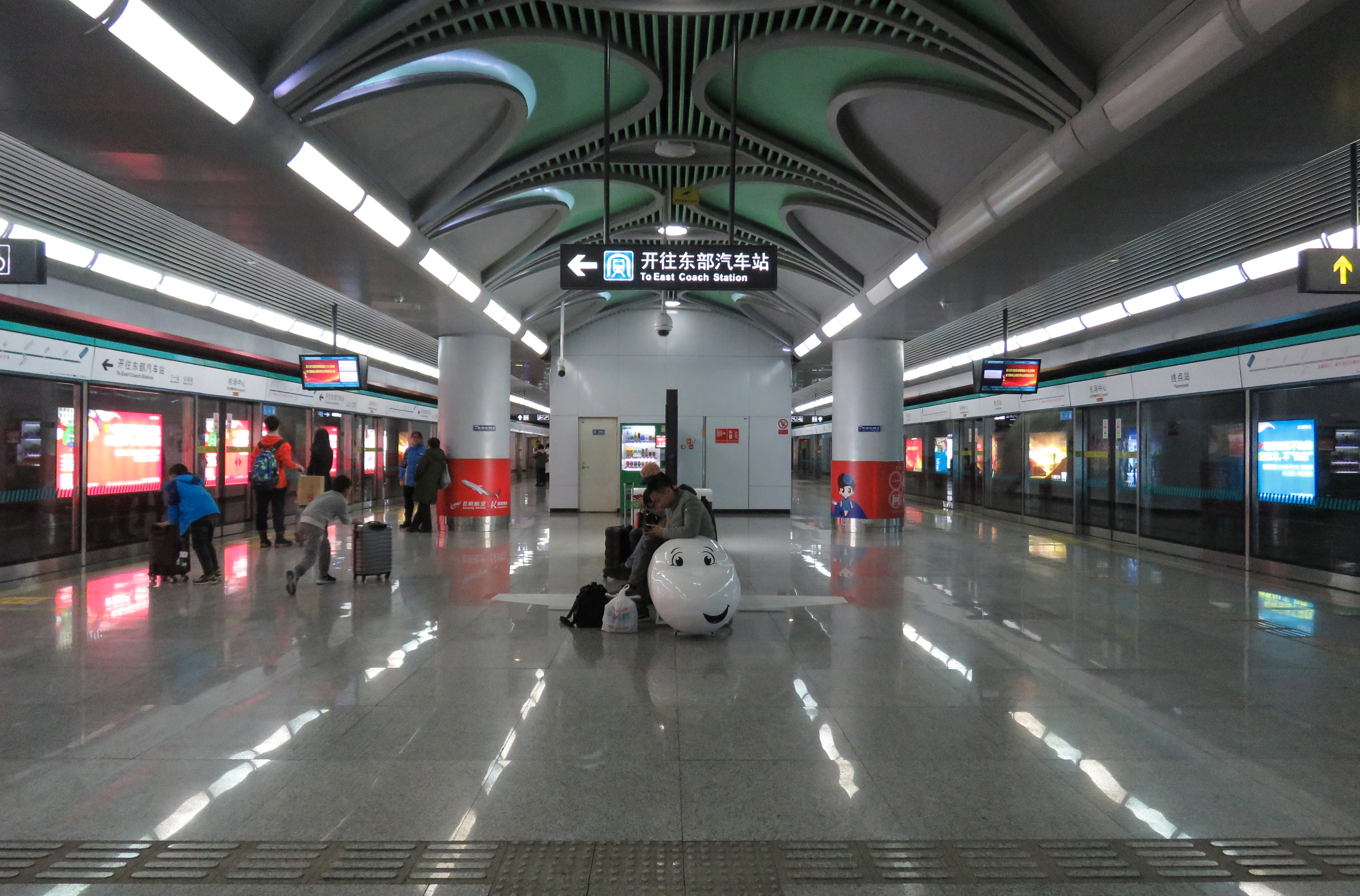 Line 6 is still too slow...